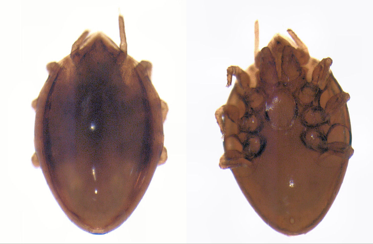 Uroobovella pilosetosa